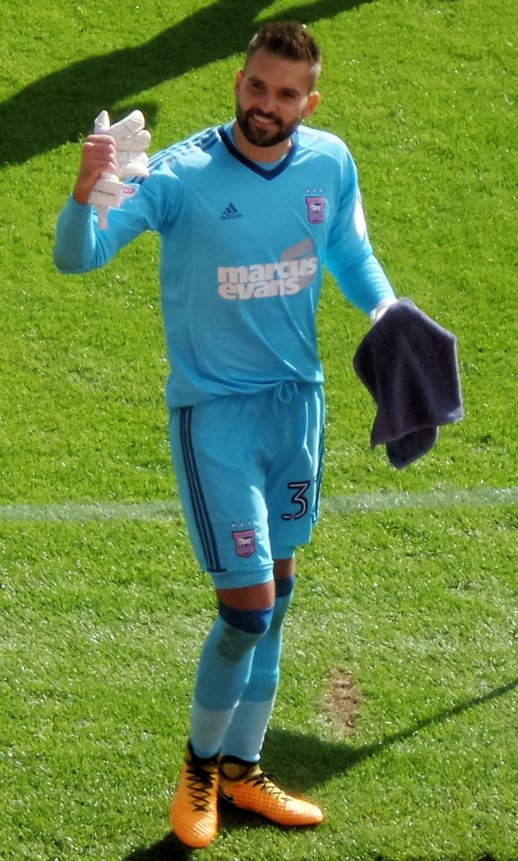 Bartosz Bialkowski playing for Ipswich Town at Barnsley on 12 August 2017